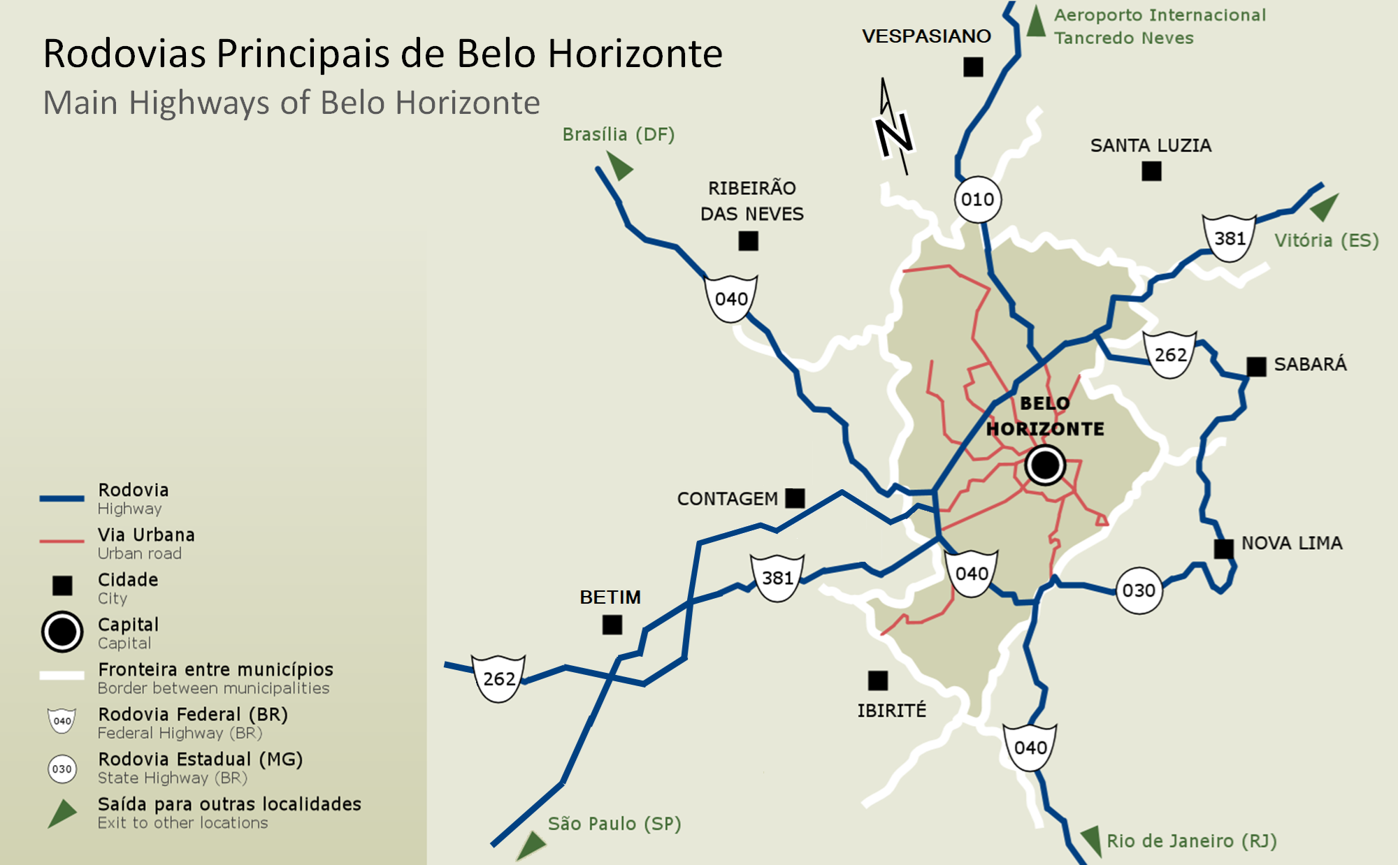 This image shows the municipality of Belo Horizonte (capital of Minas Gerais state, Brazil), surrounding municipalities and the federal and state highways that serve the region. The federal highway BR-381 that connects Belo Horizonte to São Paulo is not shown -- BR-262 leads to BR-381. This image is based on maps released by DNER-MG (Departamento Nacional de Estradas de Rodagem - Minas Gerais), accessed on 2006-09-03, on This image was created by André Fillipe.